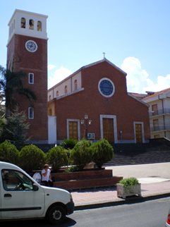 Church of Sacred Heart of Jesus (Spadafora).